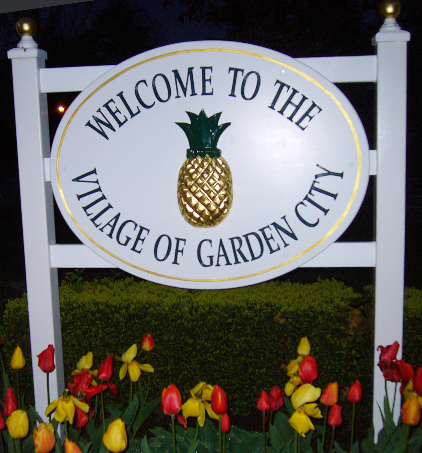 pineapple